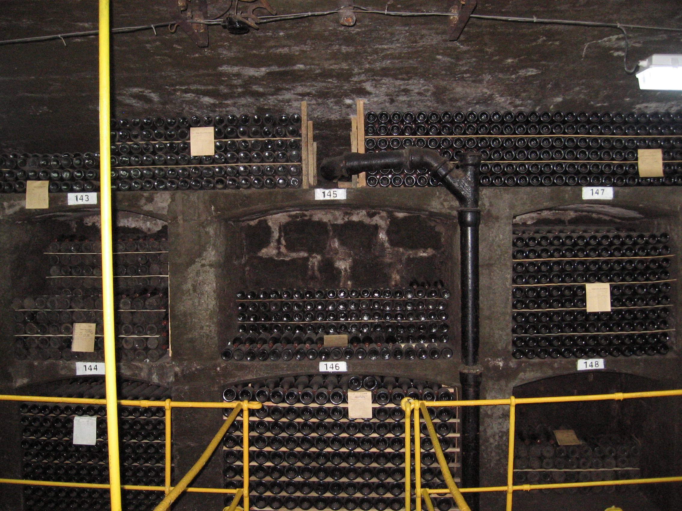 Massandra winery cellar, Crimea